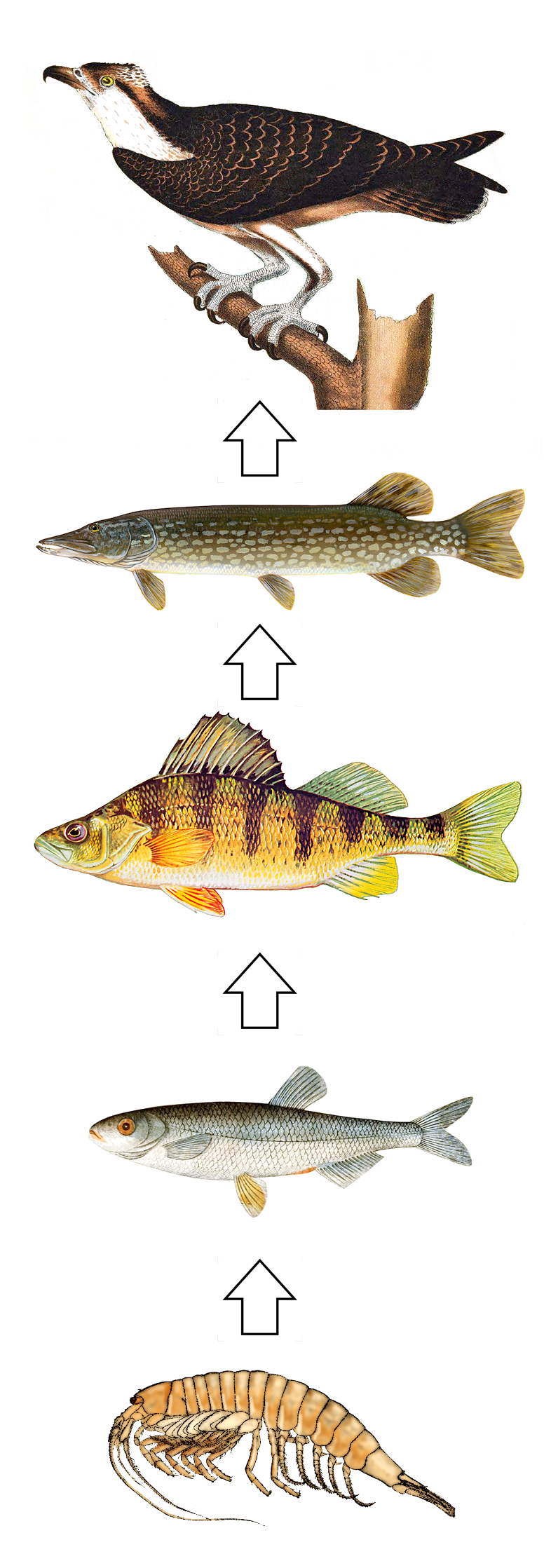 Food chain: Anaspides tasmaniae, Alburnus alburnus, Perca Flavescens, Esox lucius1, Pandion haliaetus